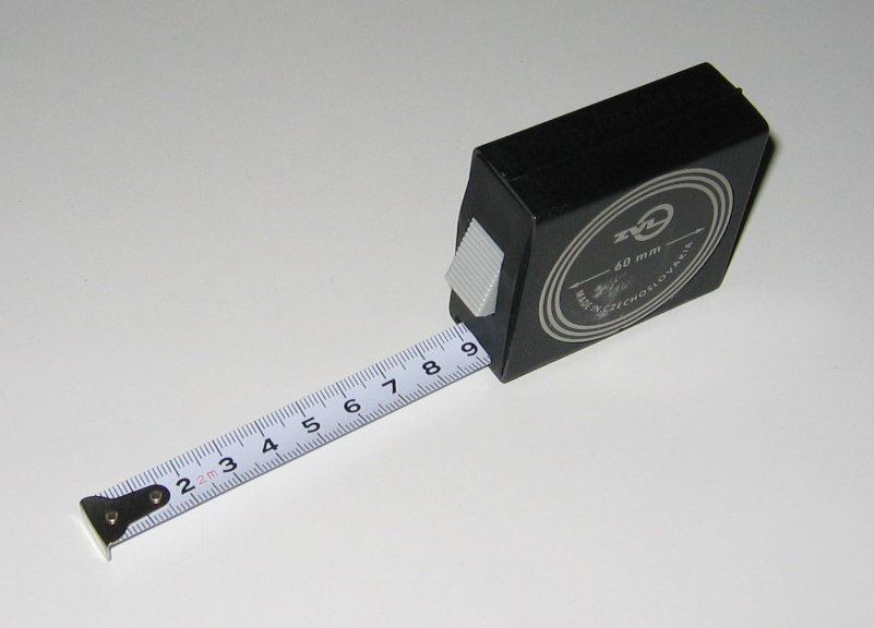 tape measure